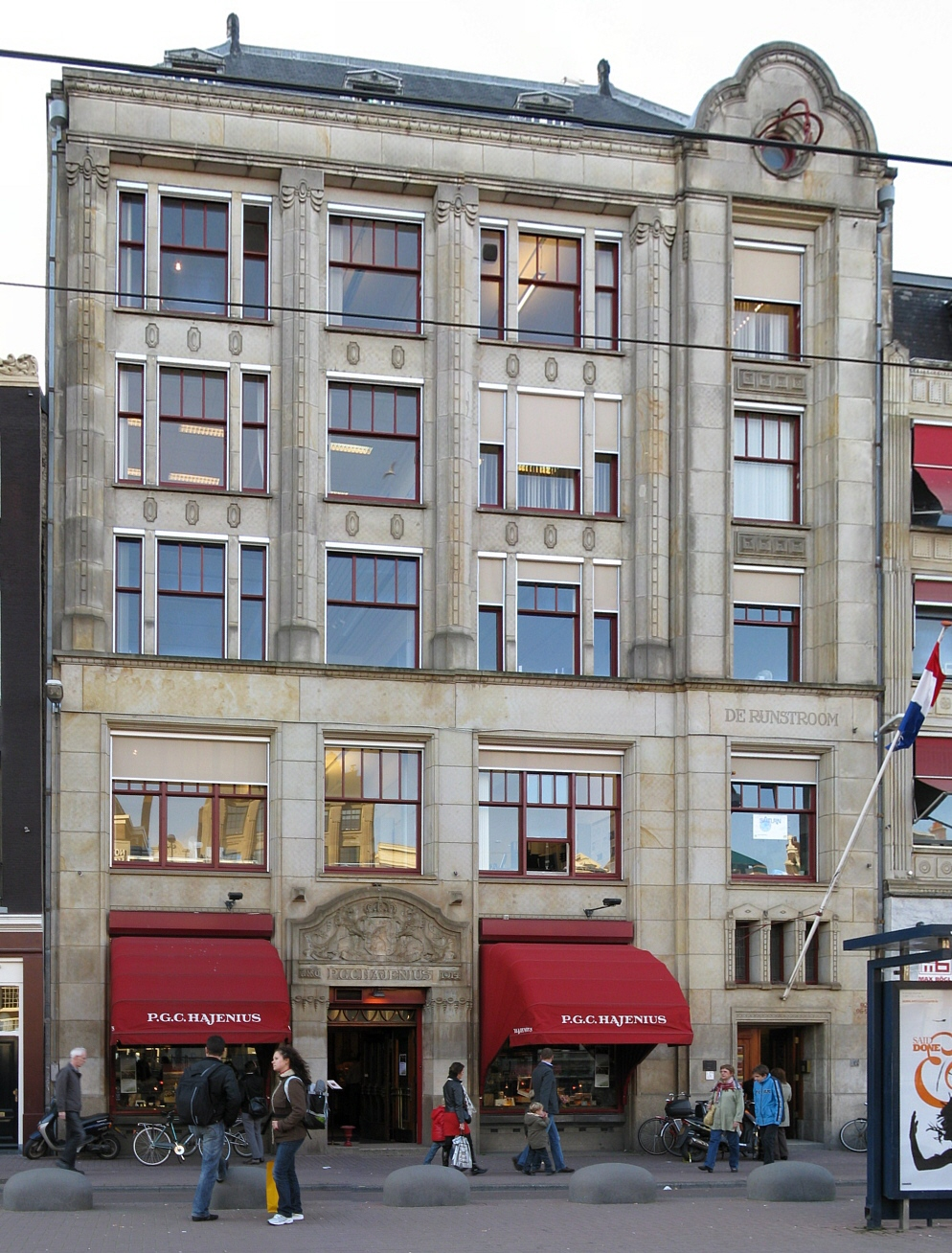 Rijnstroom building at Rokin in Amsterdam, with P. G. C. Hajenius cigar shop. Architect Adolf Daniël Nicolaas van Gendt.